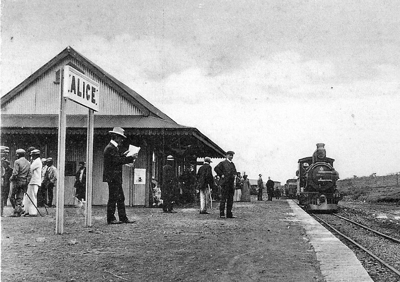 Ex Cape Government Railways Class 7 731 (4-8-0) South African Railways Class 7A 1019 (4-8-0) Builder's Number: Dübs 3644 Location: Alice, Cape